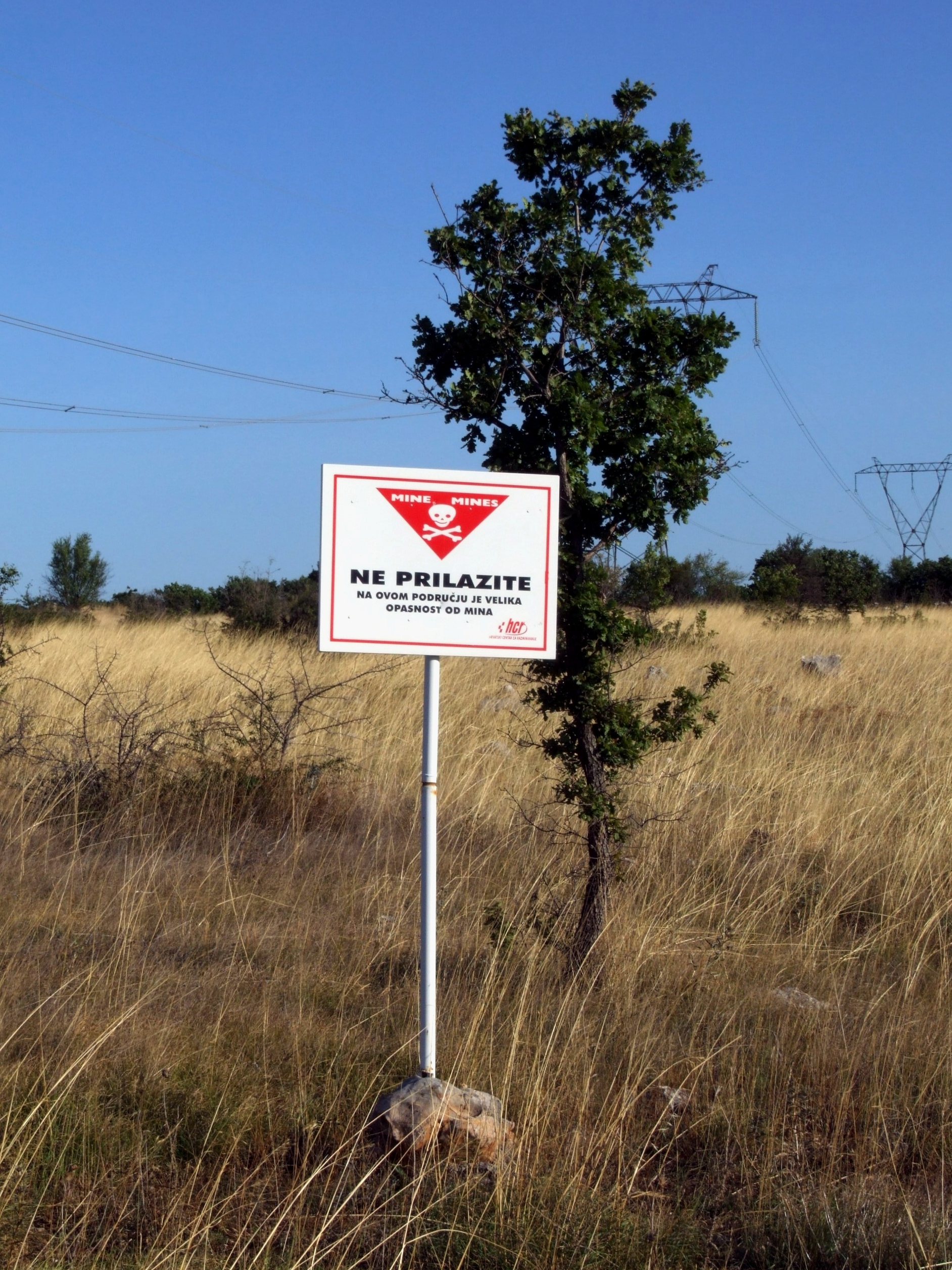 Table information about mines near Žitnić, Croatia